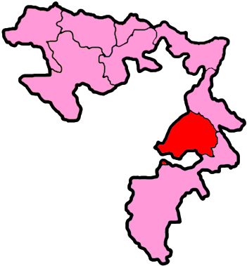 The eighth electoral unit of Republika Srpska (NSRS) shown within Bosnia and Herzegovina.